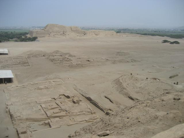 The ancient city of Moche with the "Huaca del Sol" in background. La Libertad, Peru.